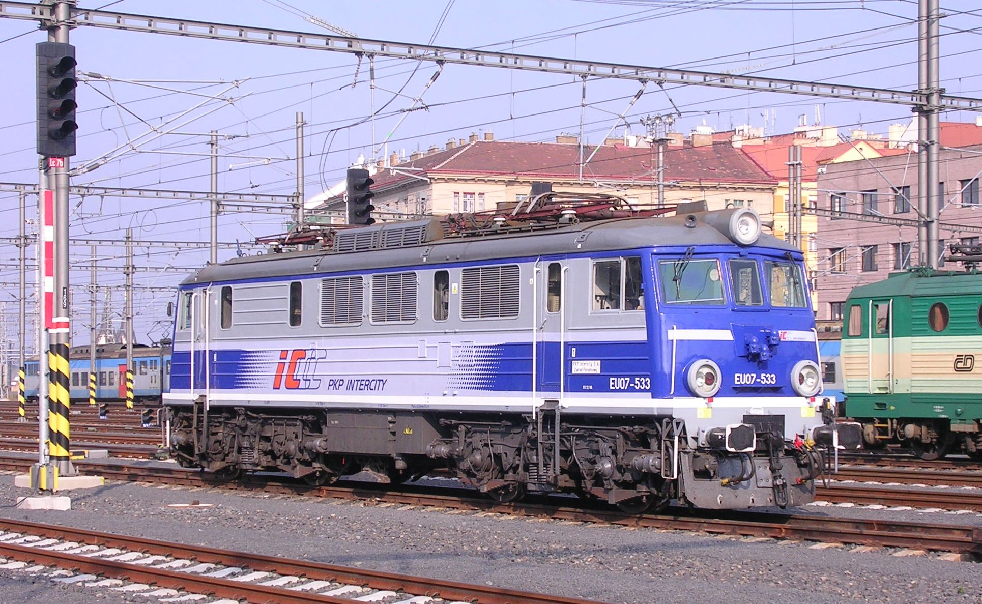 Vinohrady, Prague, the Czech Republic. "Praha hlavní nádraží" train station. A Polish locomotive EU07. - Google Maps - Google Earth